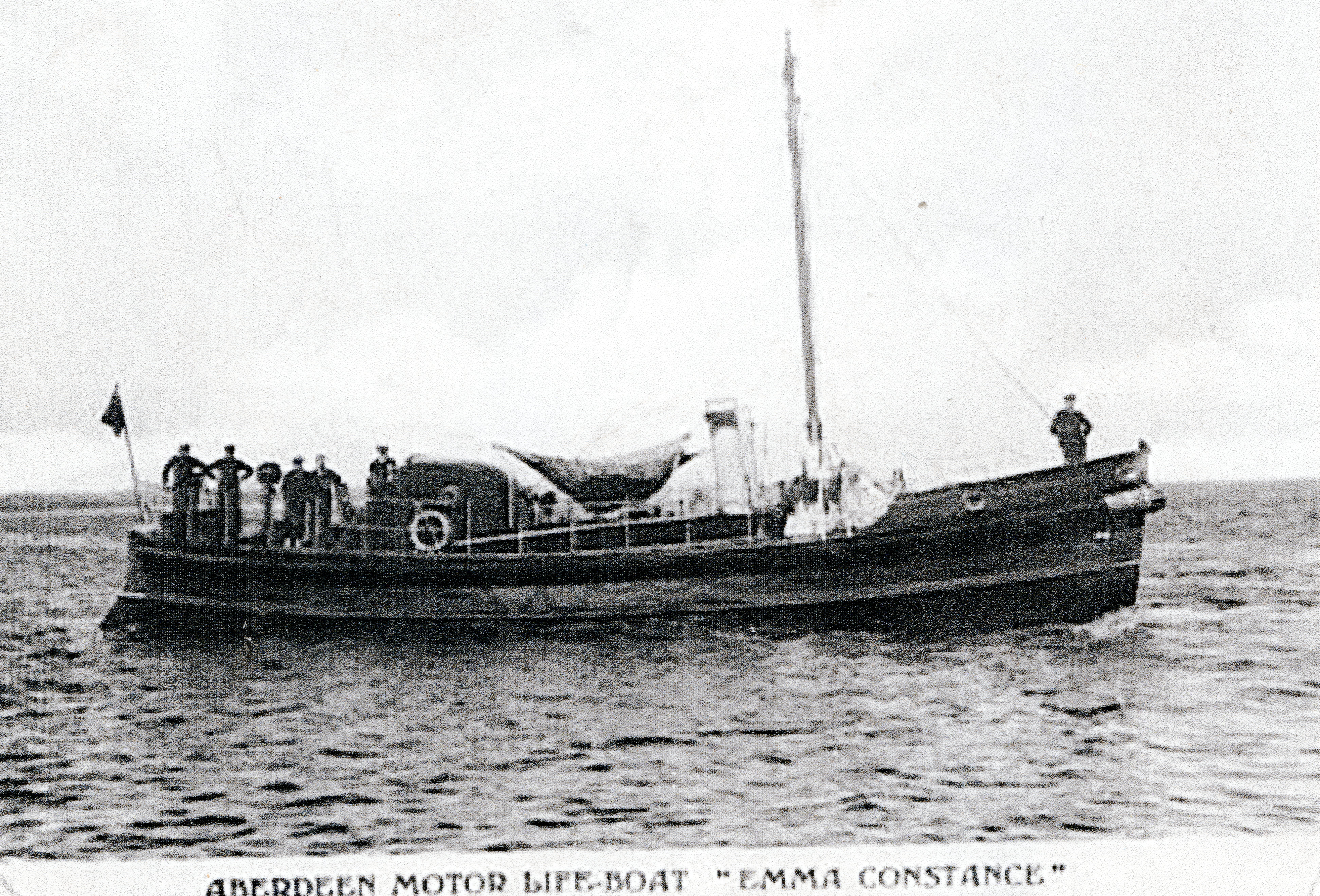 Postcard of the Aberdeen Barnett-class Lifeboat RNLB Emma Constance ON 693 scanned and cropped image from personnel postcard collection. there is no Copyright attributions